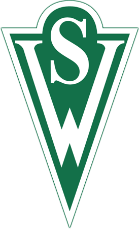 The Santiago Wanderers logo.